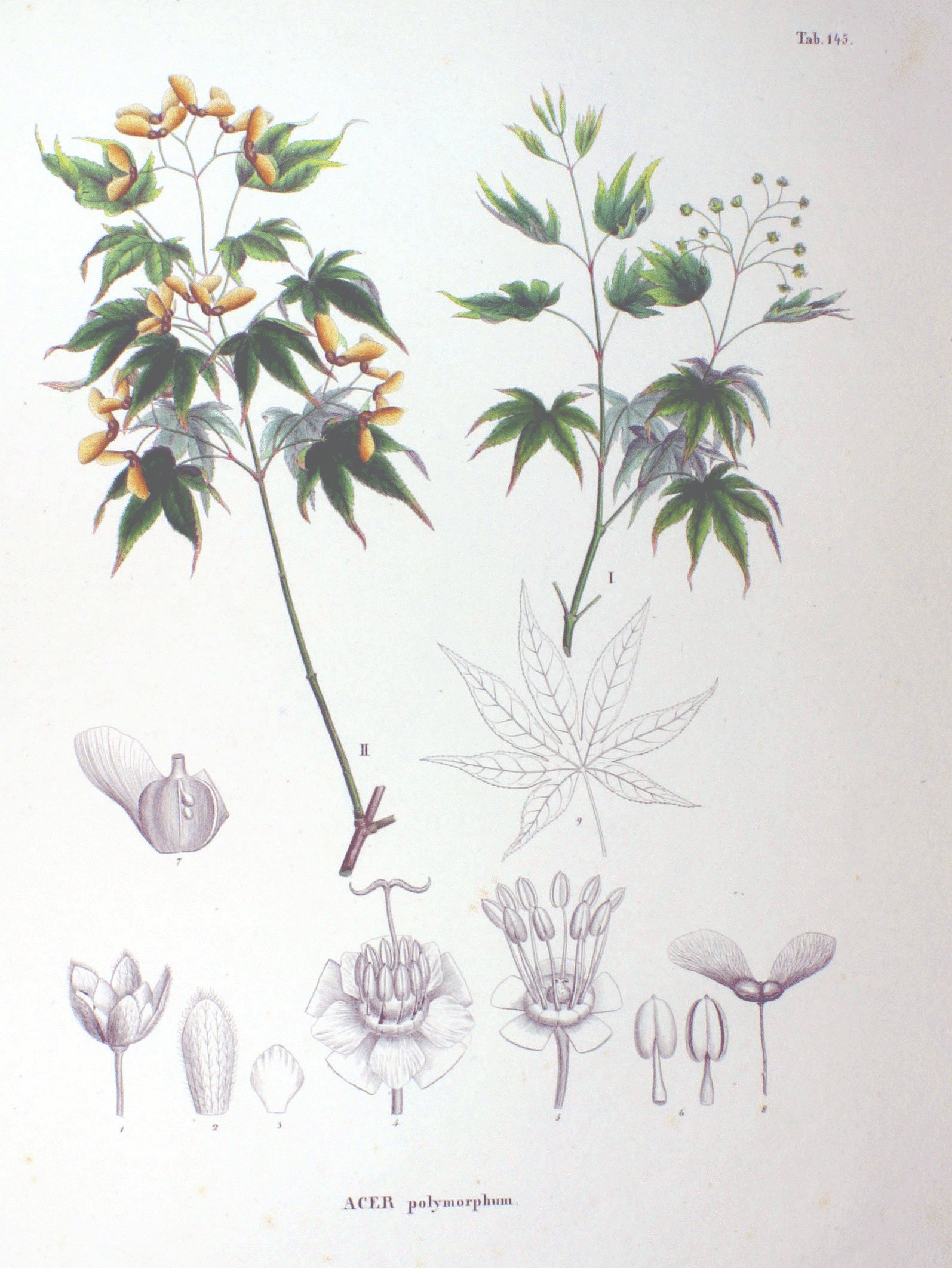 Plate from book